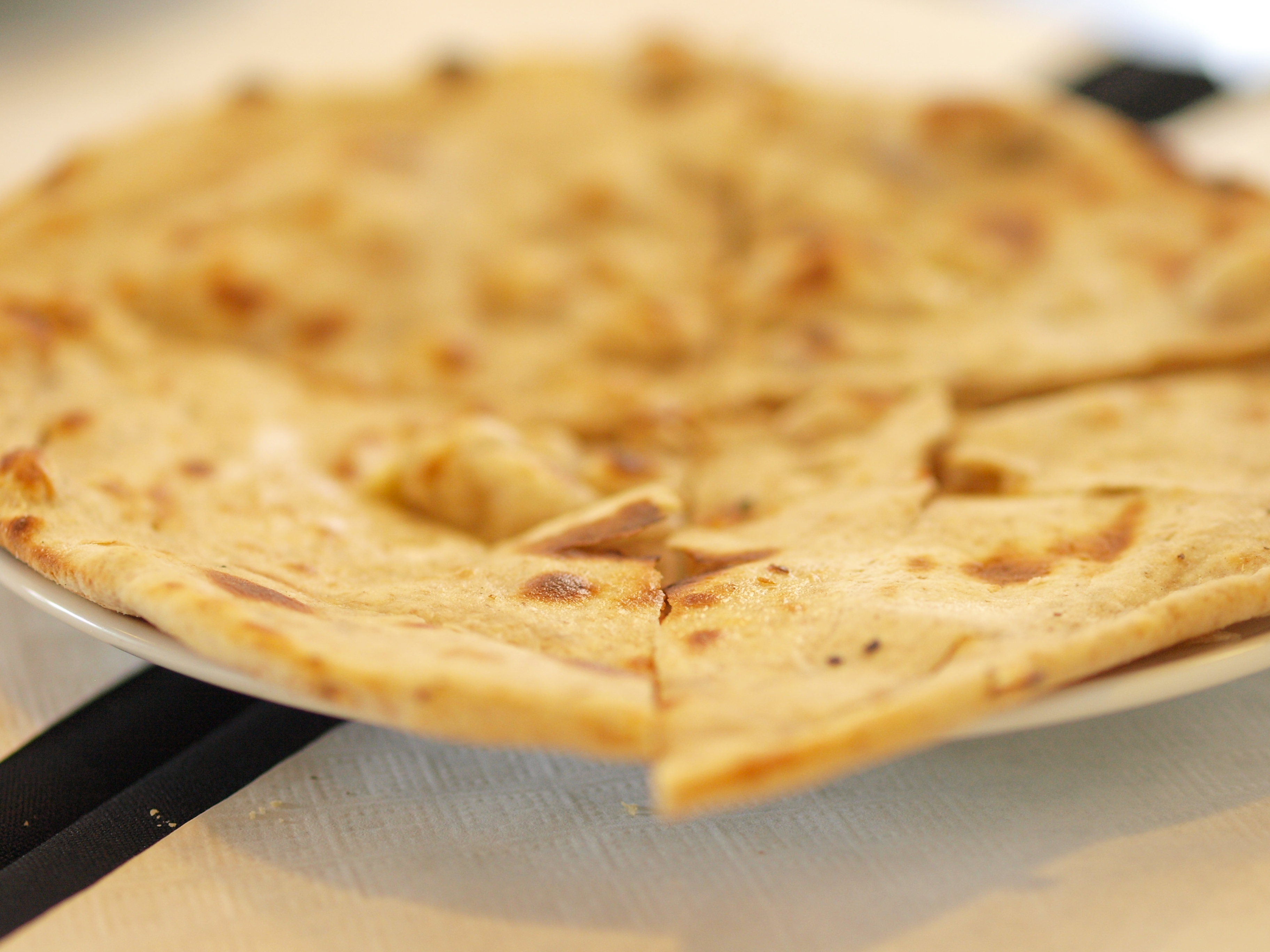 Apa, a goese bread photographed in Lisbon, Portugal.